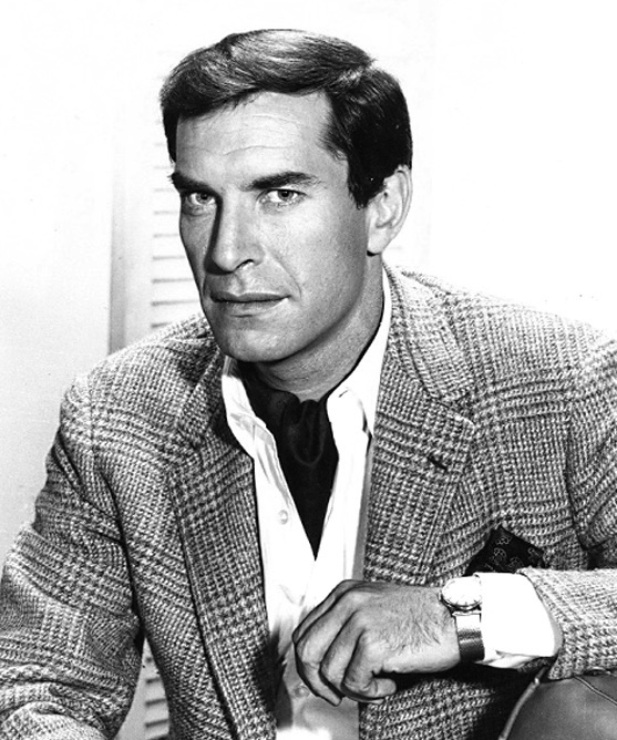 Publicity photo of Martin Landau for TV show Mission Impossible.